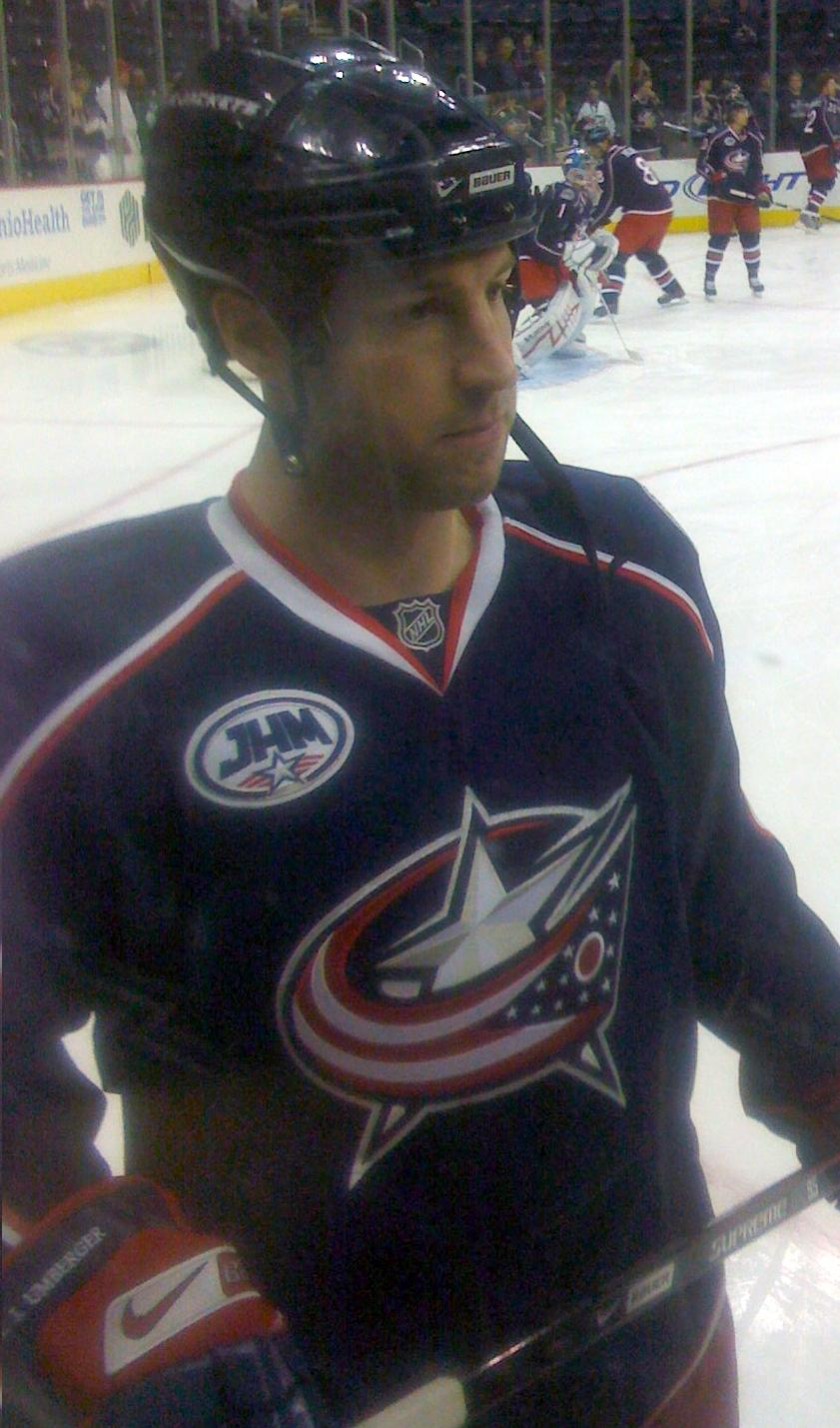 A photo of R.J. Umberger before a March 18, 2009 game against the Chicago Blackhawks